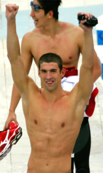 American swimmer Michael Phelps, along with his teammates, celebrates winning gold in the men’s 4 x 100-meter medley relay. It was amazing to witness.